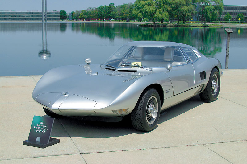 Image released to the public. Original photo found on: [1]